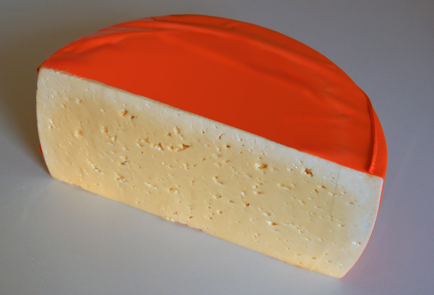 Half of kebbuck of Russian cheese produced in Ukraine